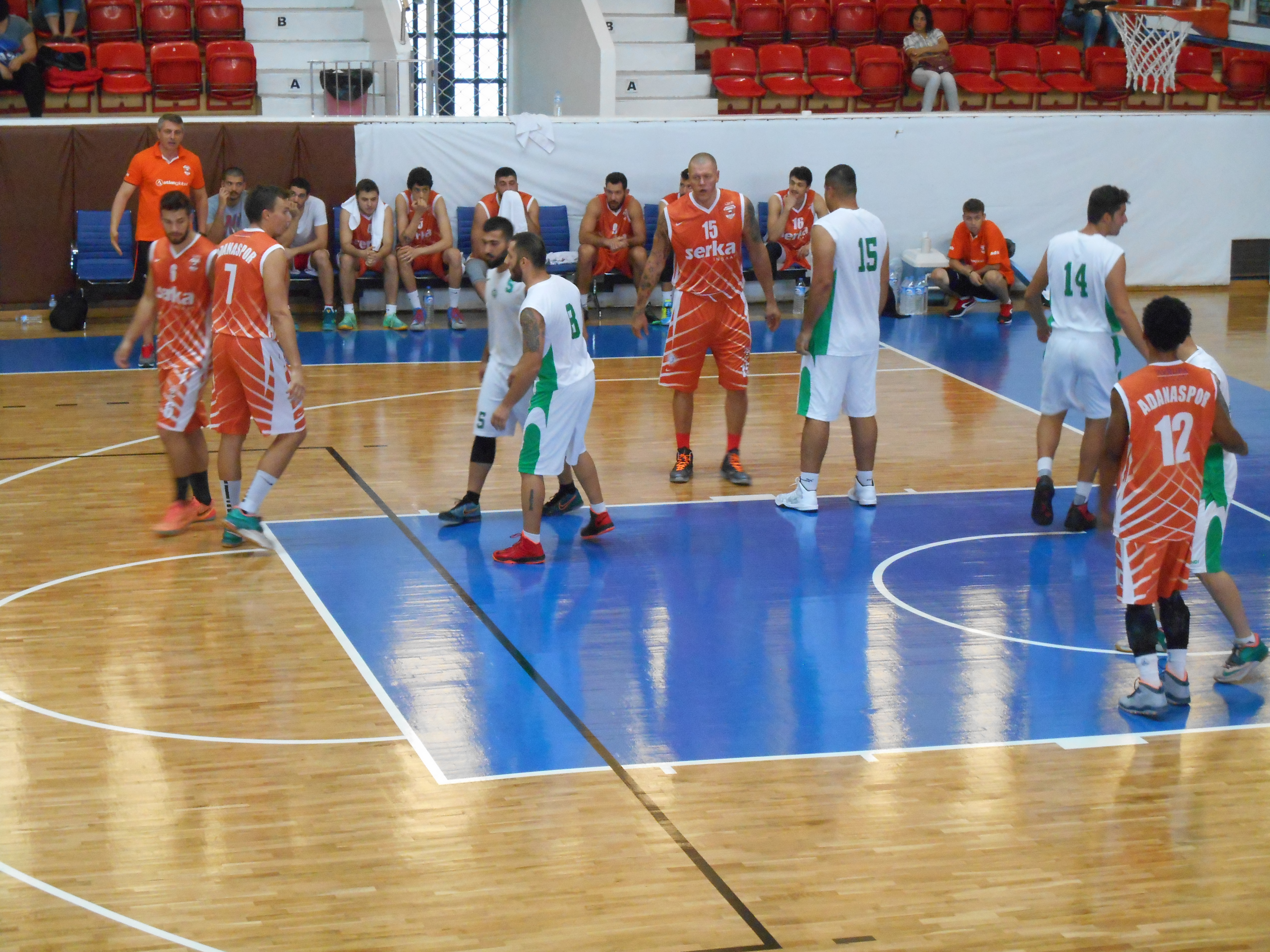 Adanaspor in attack at a friendly game